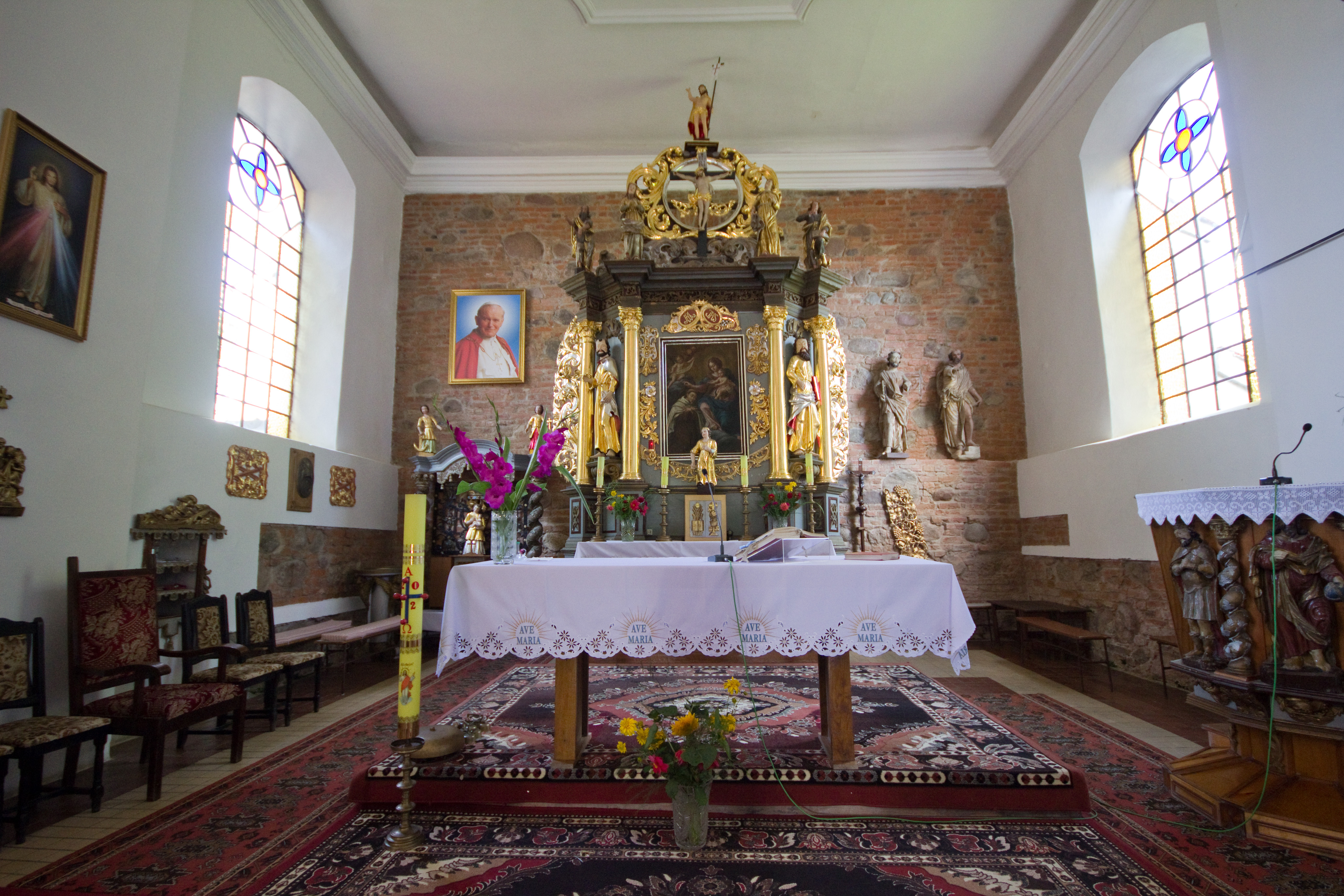 Church, Rodnowo, gmina Bartoszyce, powiat bartoszycki, Warmian-Masurian Voivodeship